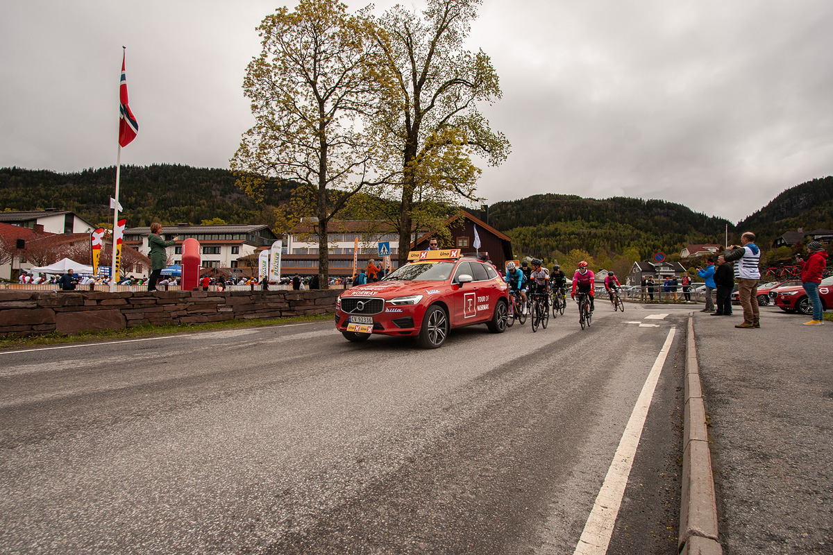 Sundvolden Grand Prix 2019, ceremonial start at Sundvolden Hotel. The finish line is at the top of the ravine in the background, but the riders had to do quite a detour to get there.